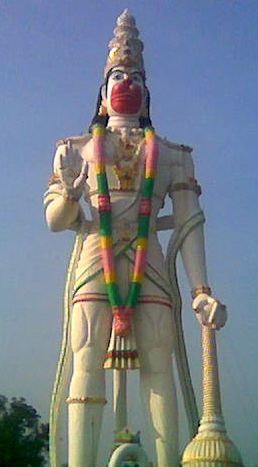 This is photo taken by me at nandura. The Hanuman Murti is near to road. One can see it from rail as well as road.